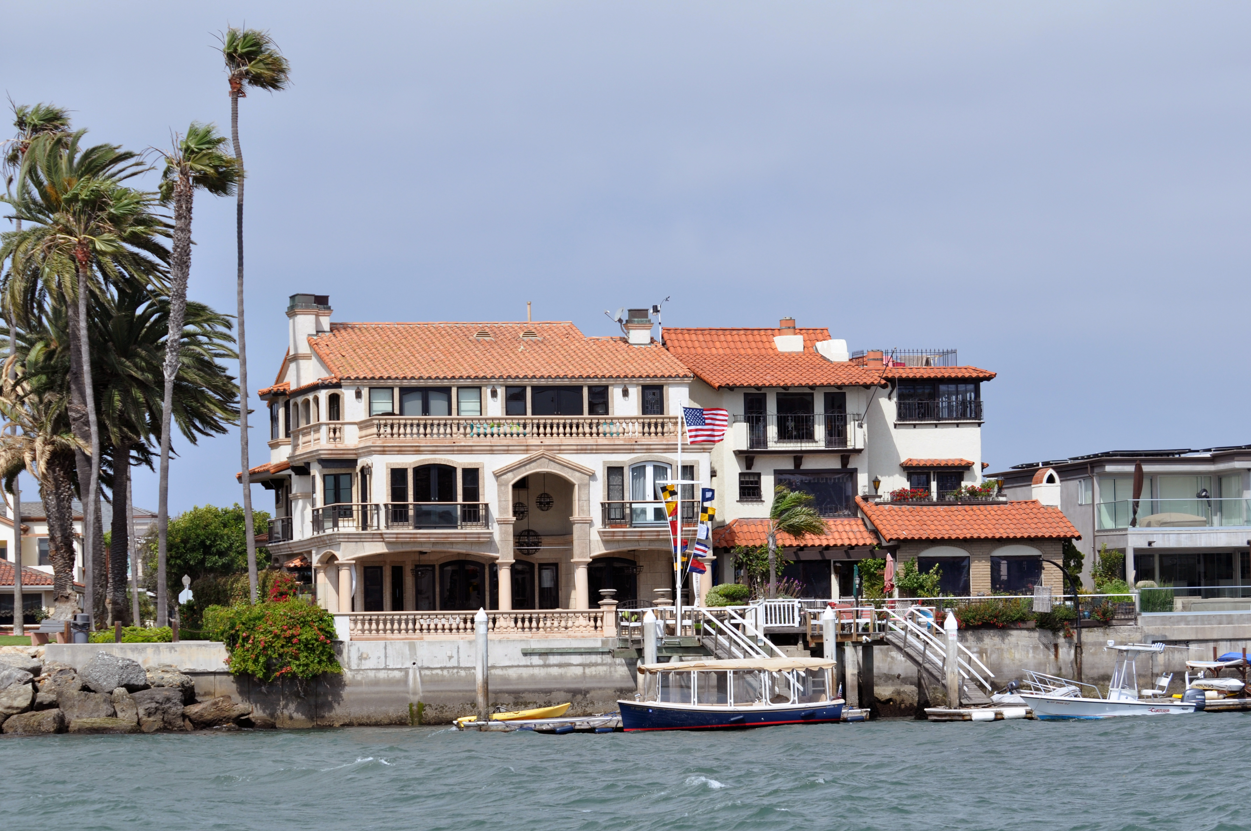 Harbor front Home Newport Beach California